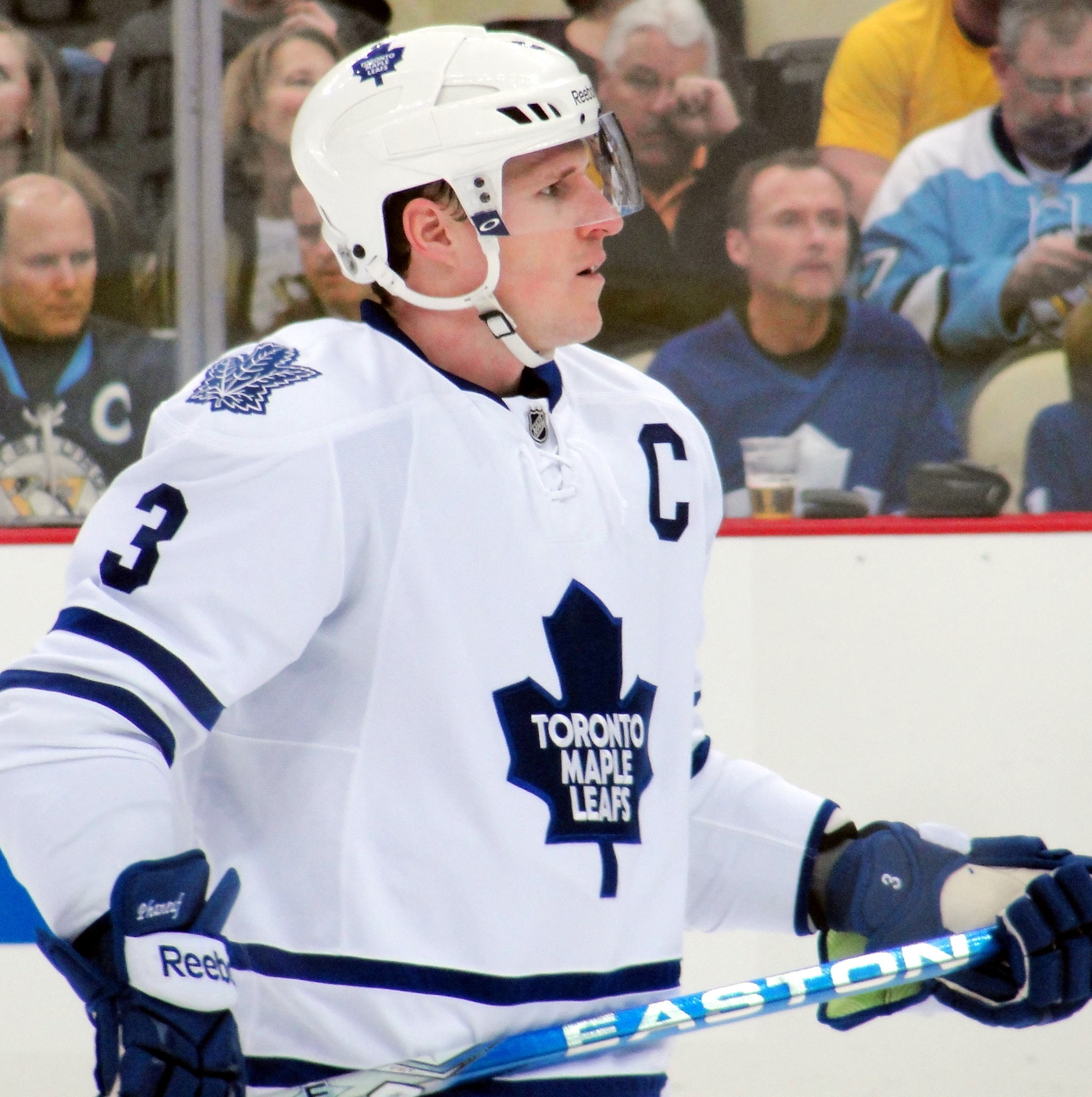 Toronto Maple Leafs defenseman Dion Phaneuf skates against the Pittsburgh Penguins, March 7, 2012 at Consol Energy Center in Pittsburgh, PA.